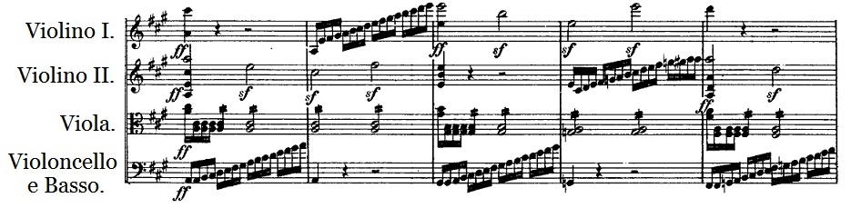 Introduction of the 1st movement of Ludwig van Beethoven's Symphony No. 7 in A major, Op. 92